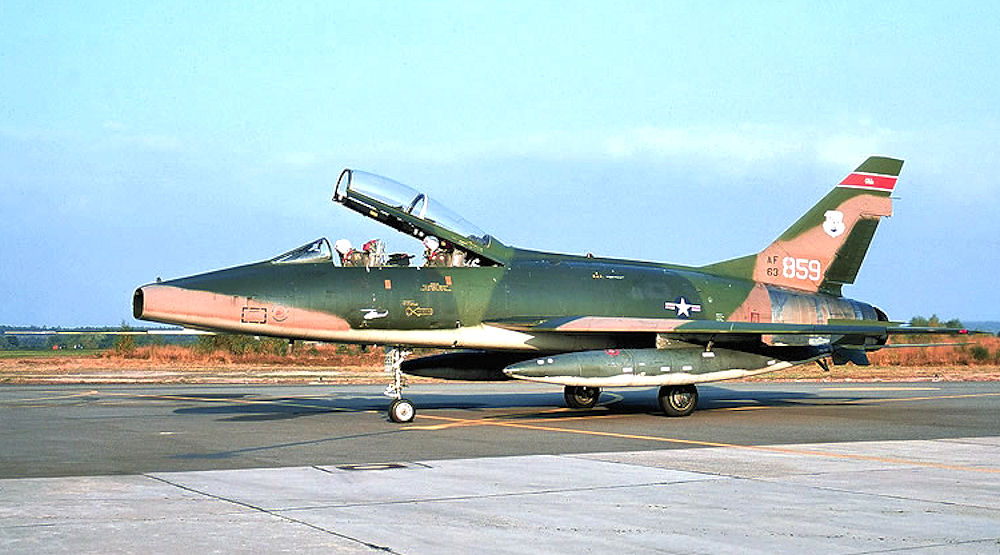 162d Tactical Fighter Squadron - North American F-100F-10-NA Super Sabre 56-3859. Aircraft retired to MASDC Apr 12, 1979 as FE0496. Later Converted to QF-100F and expended as target drone